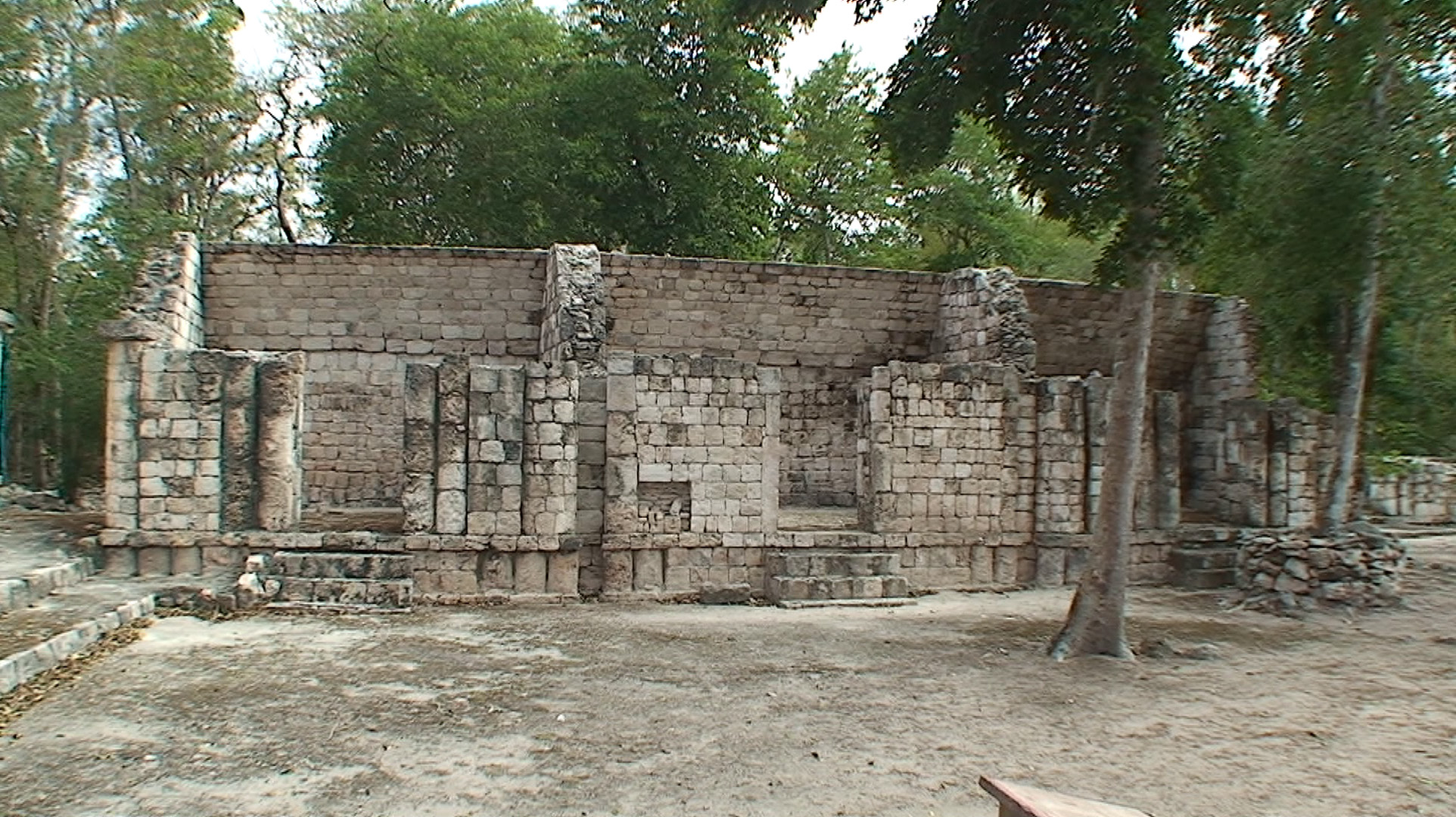 Santa Rosa Xtampak, Campeche, Mexico: Casa Colorada